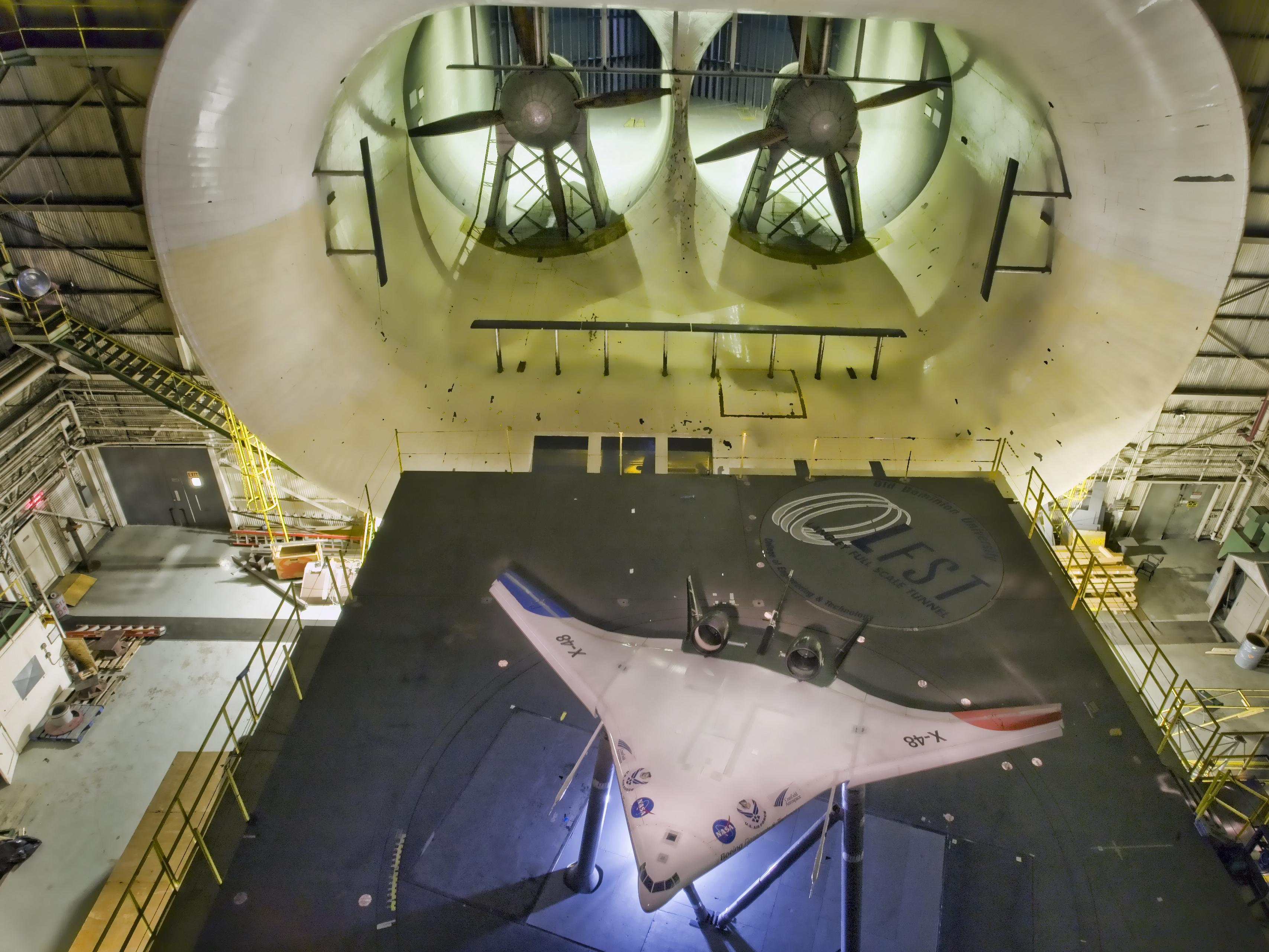 An historic wind tunnel at NASA's Langley Research Center in Hampton, Va., is helping test the prototype of a new, more fuel-efficient, quieter aircraft design. Boeing Research & Technology, Huntington Beach, Calif., has partnered with NASA's Aeronautics Research Mission Directorate and the U.S. Air Force Research Laboratory, Wright Patterson Air Force Base, Ohio, to explore and validate the structural, aerodynamic and operational advantages of an advanced hybrid wing body concept called the blended wing body or BWB. NASA is flight testing one version of a 21-foot (6.4 m) wingspan BWB prototype, called the X-48B, at NASA's Dryden Flight Research Center, at Edwards AFB, Calif. The other one being tested in the Langley Full-Scale Tunnel is the X-48C. It has been modified to make it quieter. Those modifications include reducing the number of engines from three to two and the installation of noise-shielding vertical fins. The wind tunnel tests are assessing the aerodynamic effects of those modifications.